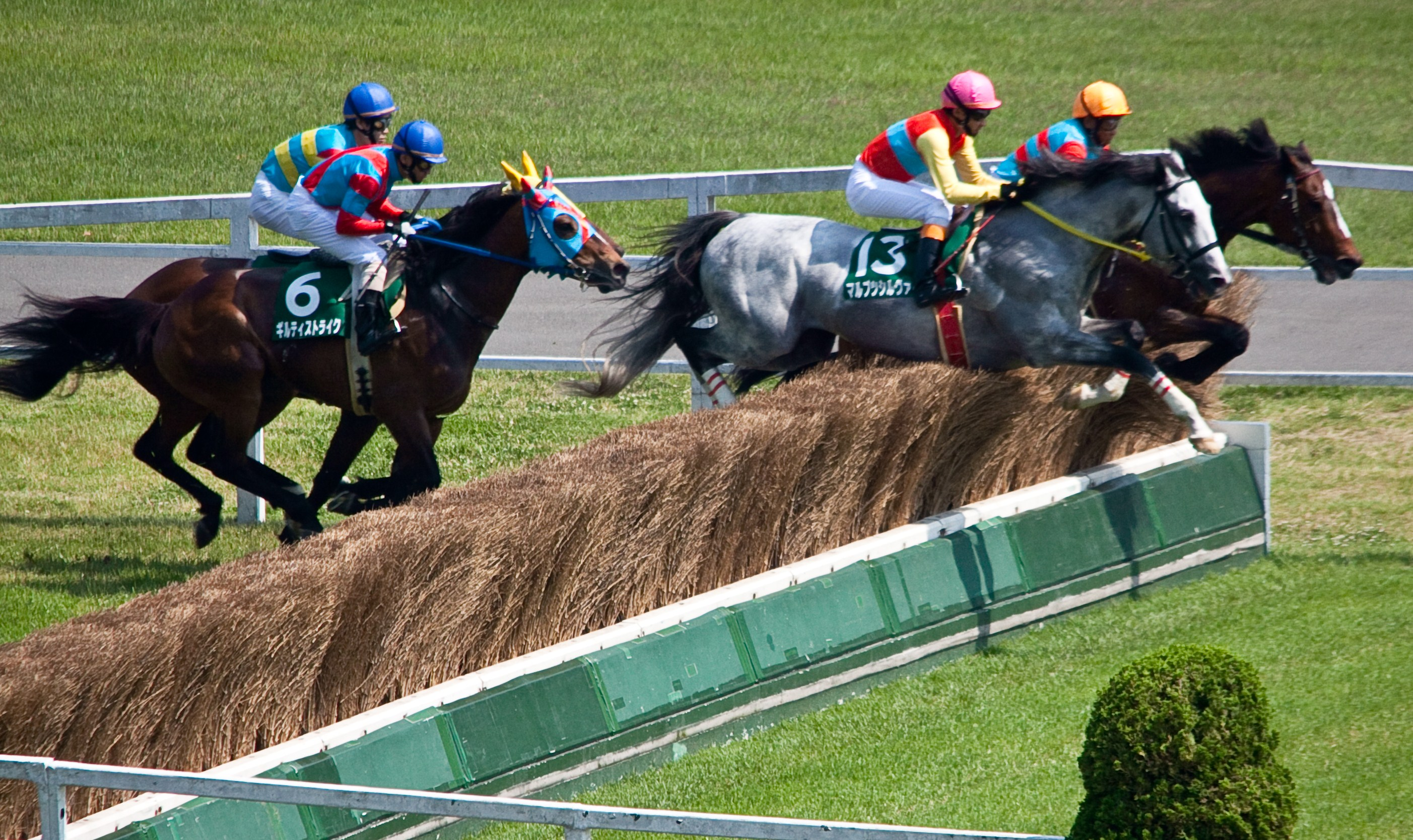 Tokyo Jump Stakes(2010)